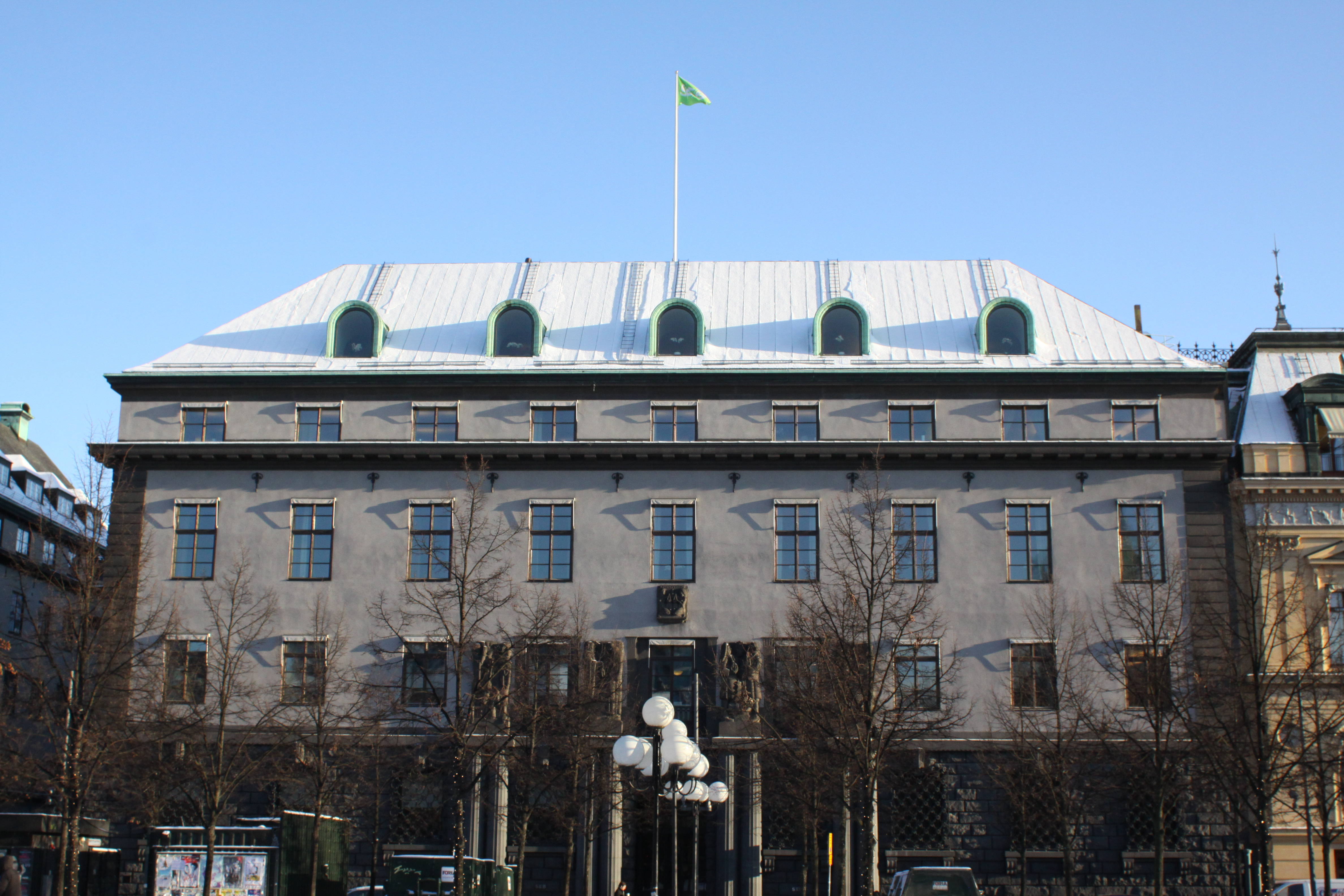 SEB's corporate headquarters at Kungsträdgården 8 in Stockholm